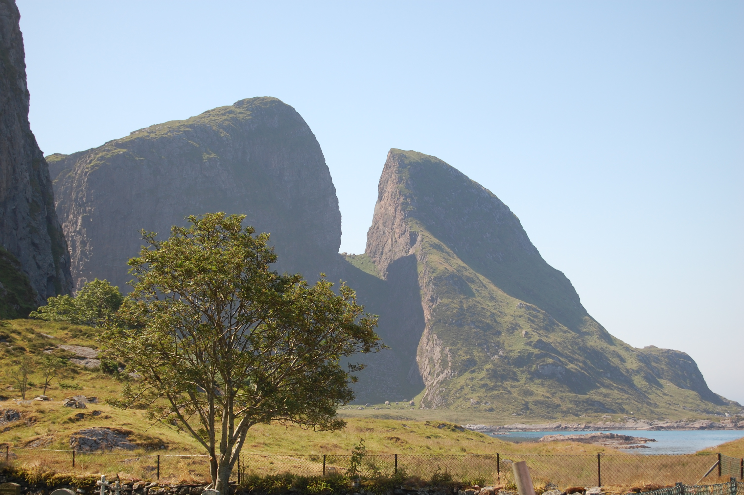 Kinnaklova on Kinn island in Flora, Norway.